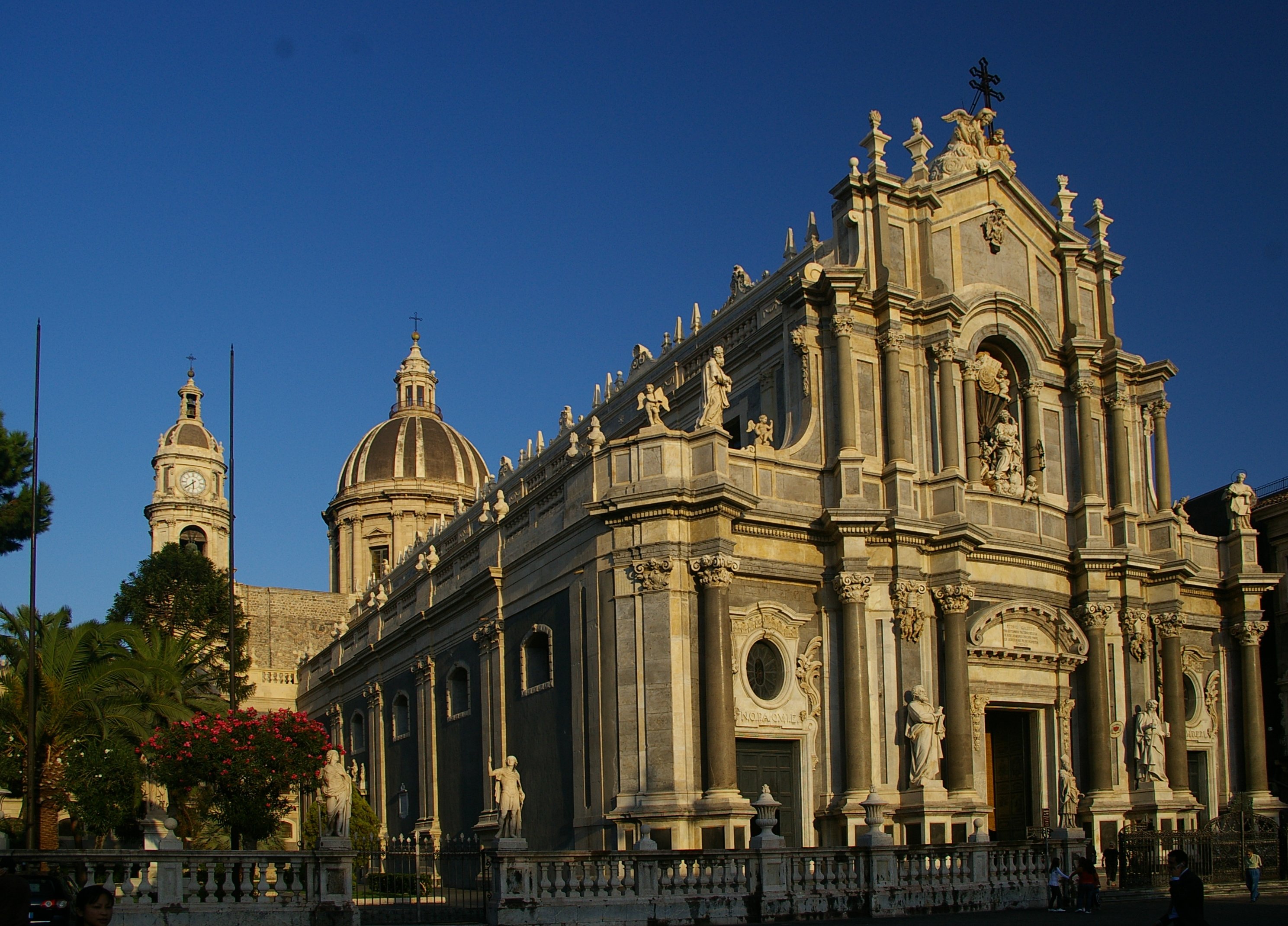 Basilica Cattedrale Di Sant'Agata